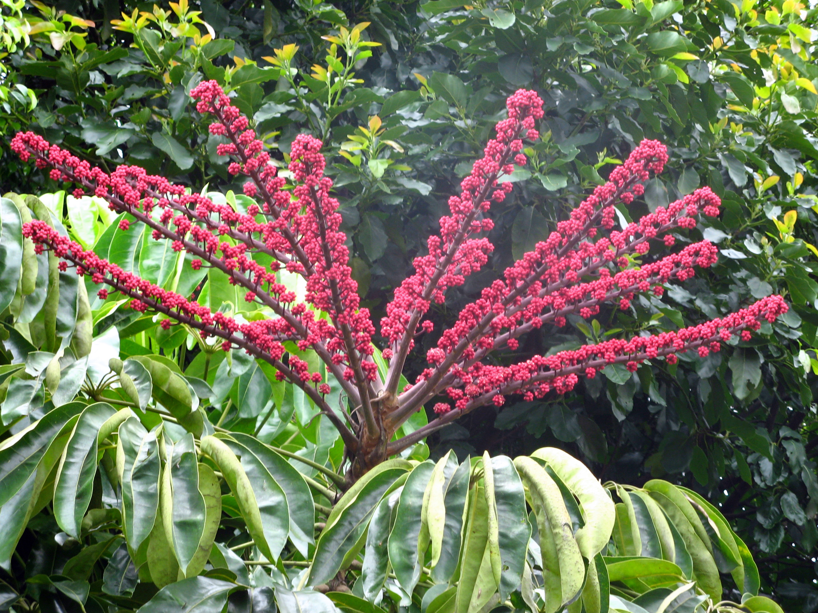 Schefflera actinophylla